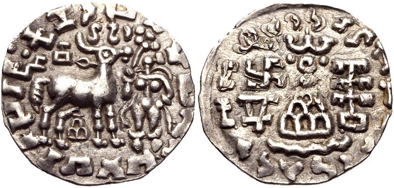 Kunindas coin with Chaitya